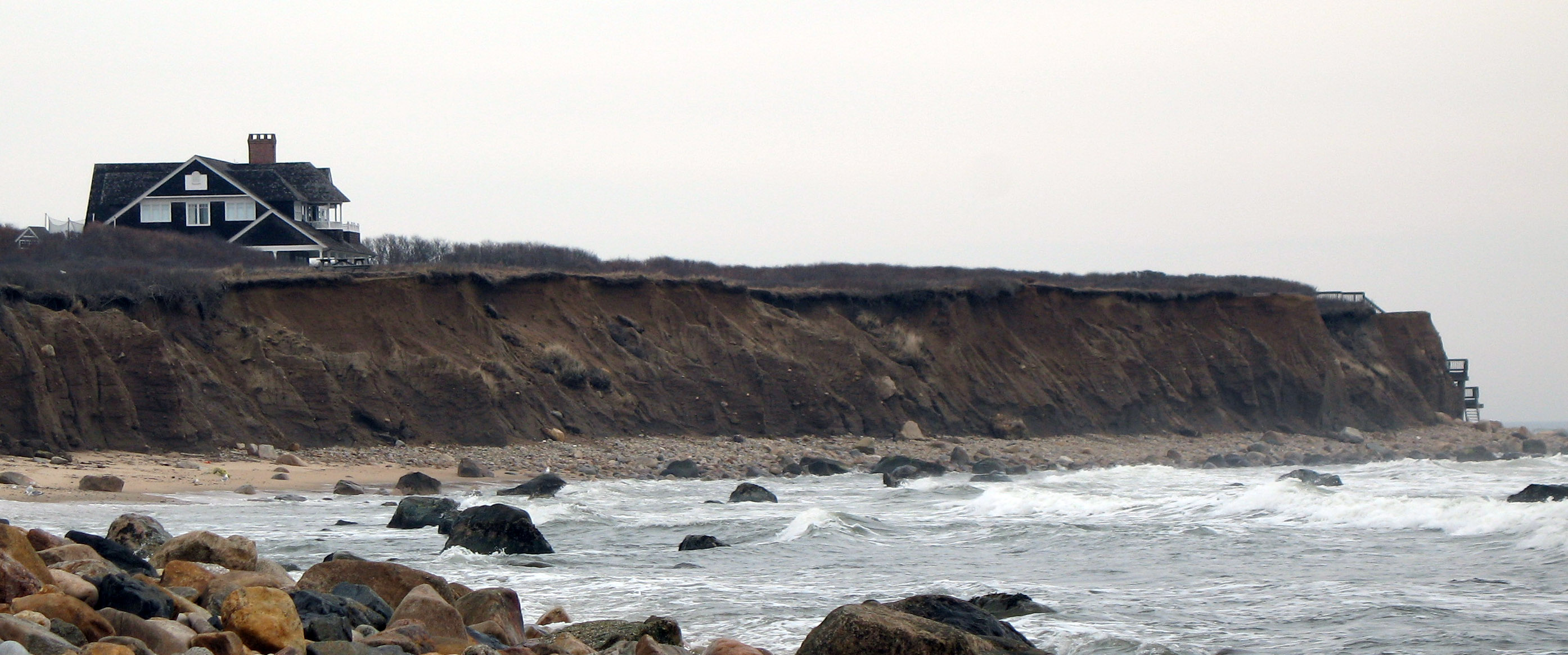 Montauk Association house at Ditch Plains in Montauk, New York. Photo by poster in March 2007.